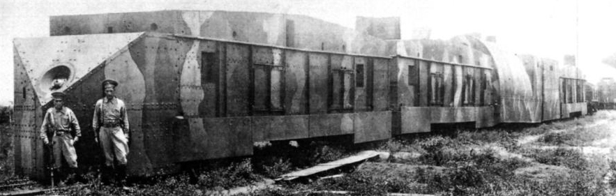 Panoramic view of "TB-6", an armored train built by rebels of Sao Paulo, Brazil, during the Constitutionalist Revolution of 1932.